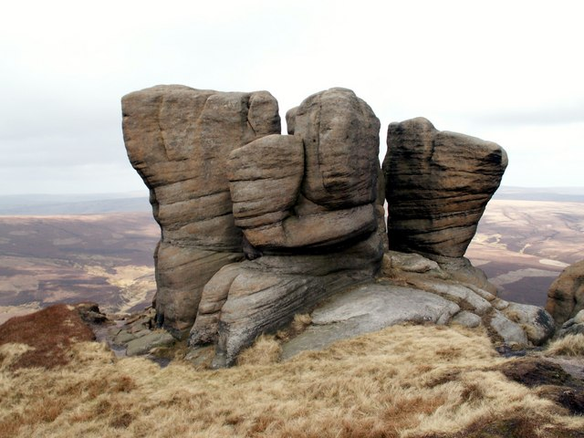 The Boxing Glove Stone On the northern edge of Kinder above The River Ashop and Snake Path